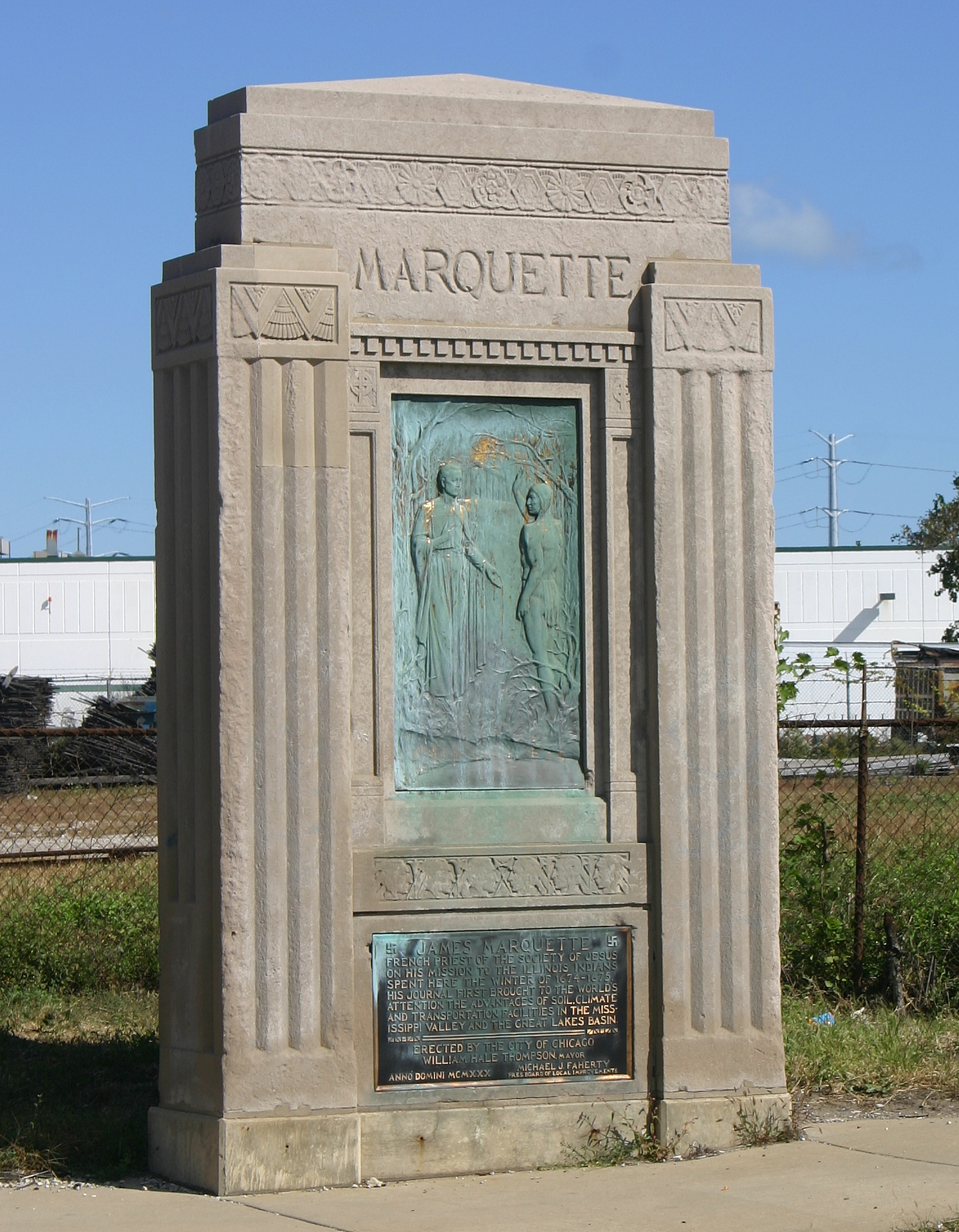 Monument at 2631 S. Damen Ave. in Chicago IL marks the location where Father Jacques Marquette (named "James Marquette" on this monument) spent the winter of 1674-75. It also marks the eastern end of the Chicago Portage.